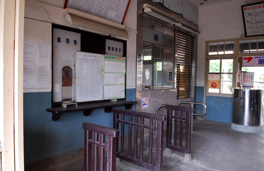 NanJing Station is a local train station of Taiwan's Western main rail line. It's located within the boundary of ShueiShang Township, ChiaYi County. This photo shows the wooden ticket counter with traditional design.